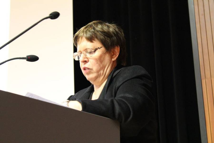 Tamara Griesser - Pečar (1946-), Slovenenian historian